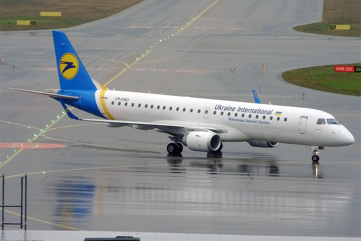 Ukraine International Airlines, UR-EMD, Embraer ERJ-190LR